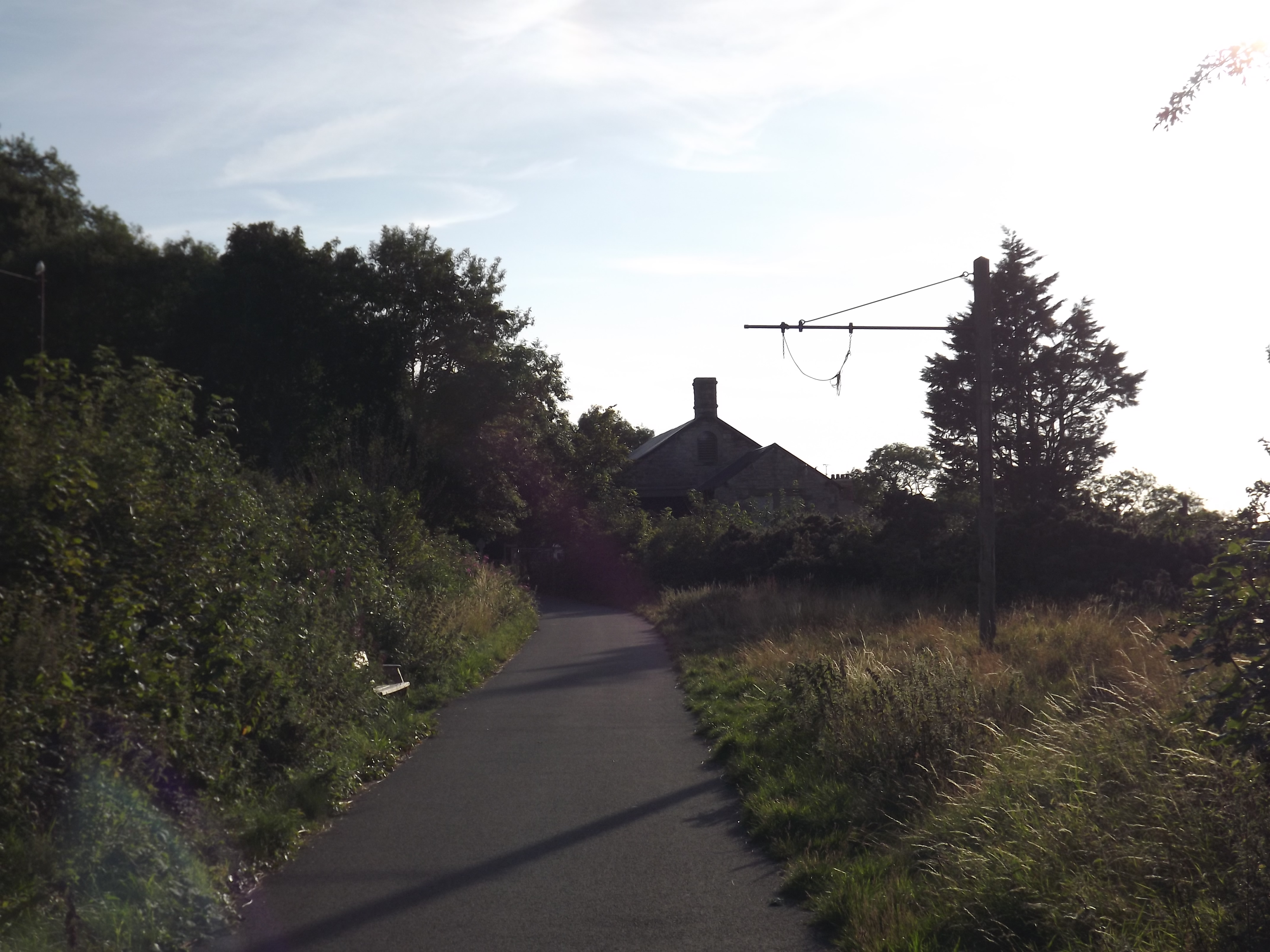 good shed and loading guage at the former site of Meliden railway station